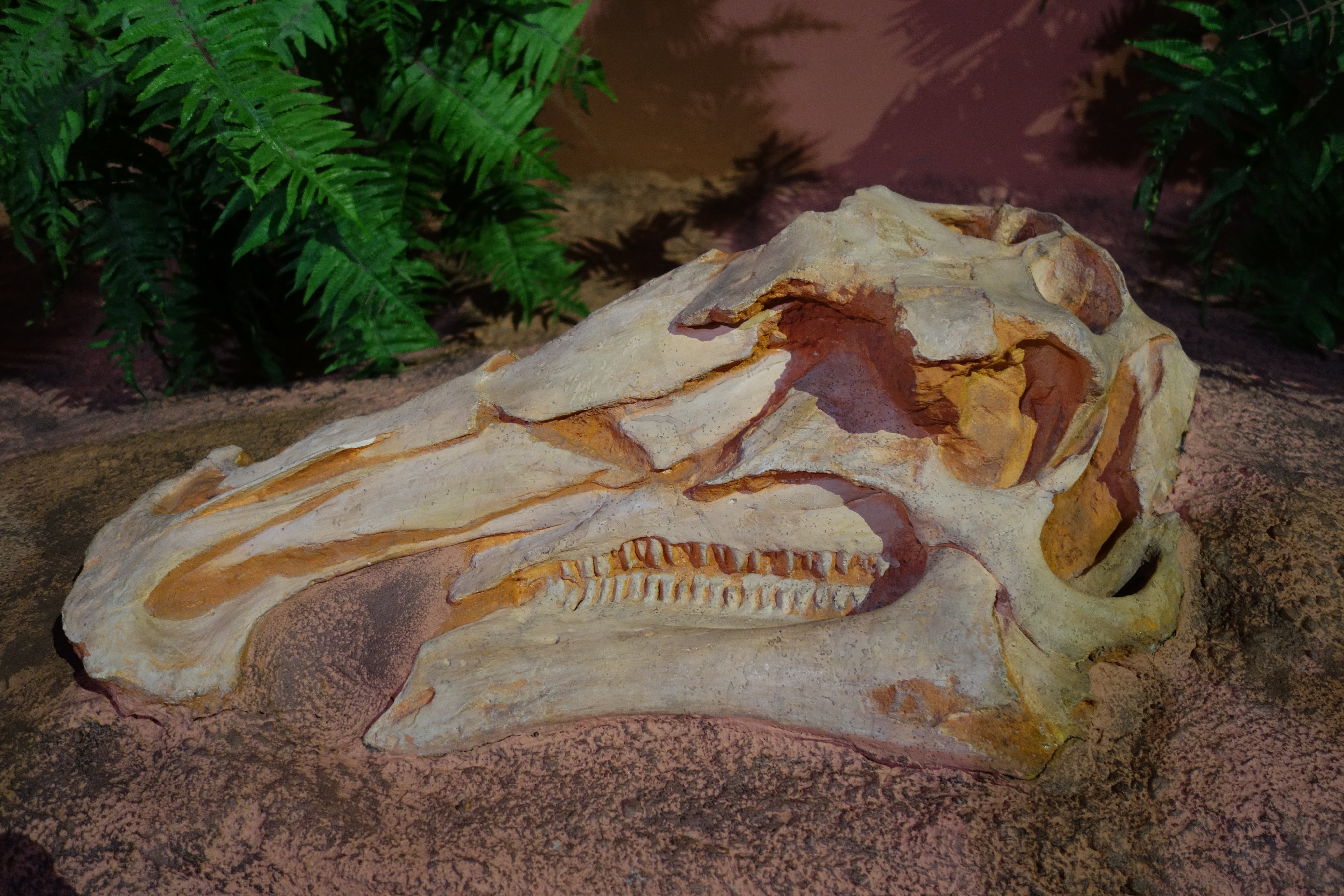 Bactrosaurus skull cast, on display at the Museum of Ancient Life, Utah.